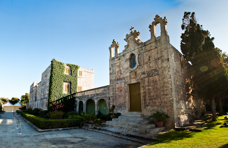 Panorama: 3 shots. Close to Siggiewi, at the southern end of the island, is the fertile little valley of Girgenti. Girgenti Palace was built by Inquisitor Onorto Visconti in 1625 and commands a superb view of the surrounding country. Its gardens are watered by a number of springs, the main one being that of Għajn il-Kbir, which also irrigates the vallet of Girgenti below. Its chapel, dedicated to San Carlo Borromeo, was built by Inquisitor (later Cardinal) Angleo Durini in 1763. More info: .mt/girgenti?l=1